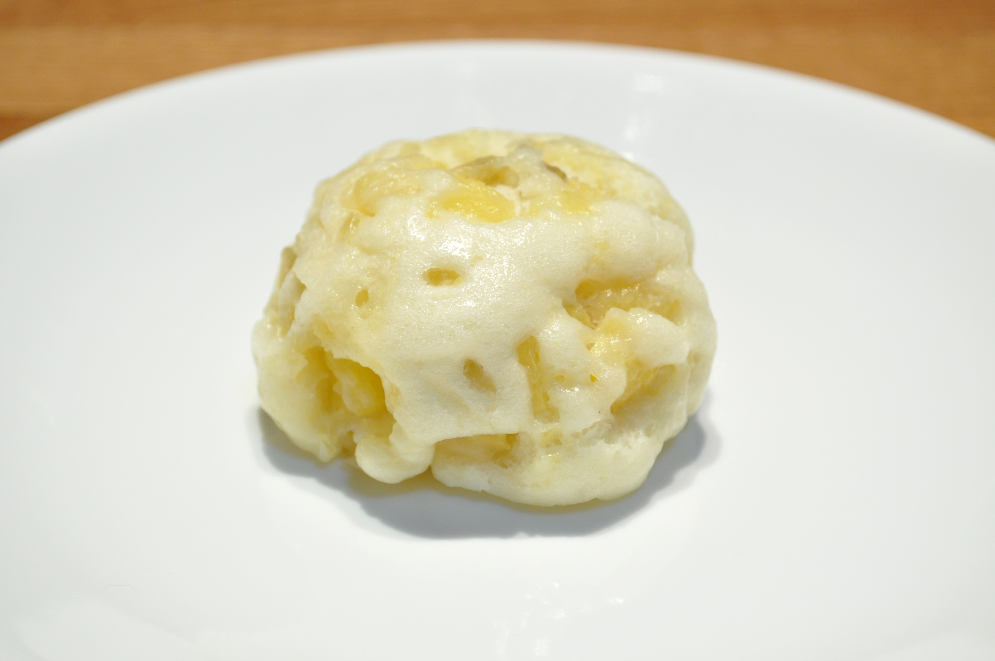 Oni Manjū